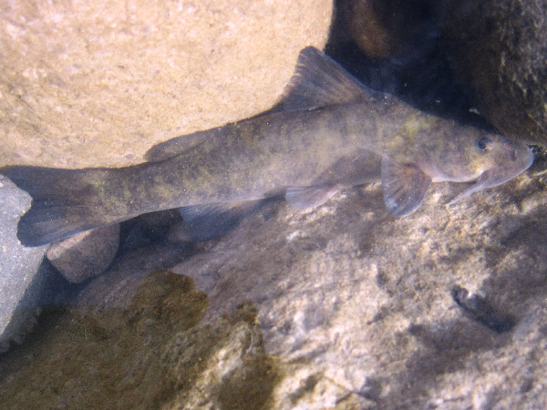 Chile, Río Maule, sector La Mina (340286.70 m E - 6034613.89 m S - Huso 19) 960 m.s.n.m.